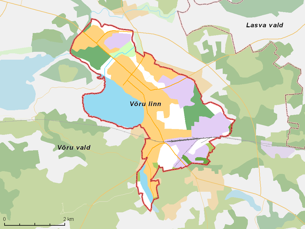 Map of municipality in Estonia